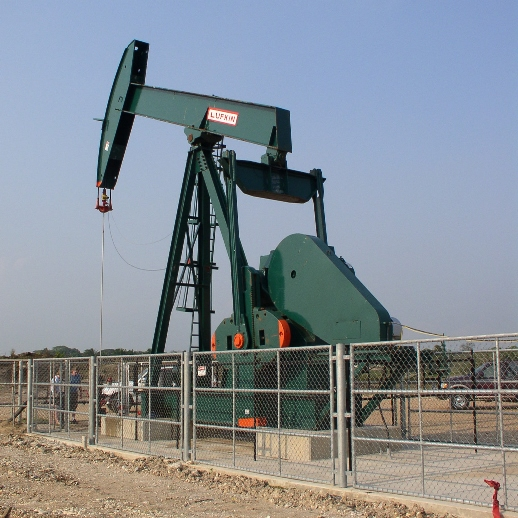 An oil well in Belize.